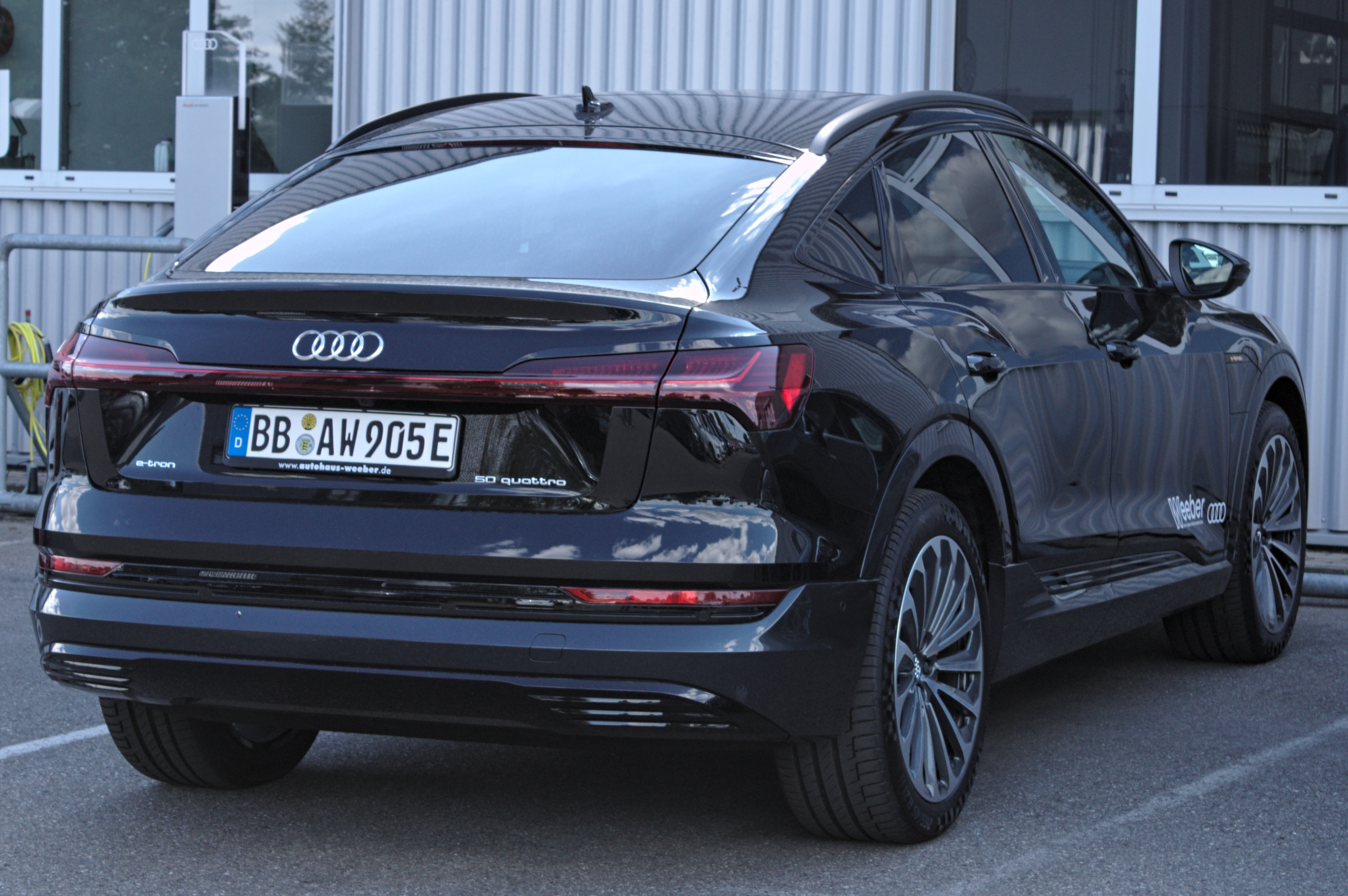 Audi_e-tron_Sportback in Herrenberg